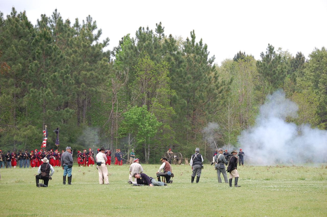 2008 Civil War Reenactment at Port Hudson, Louisiana.